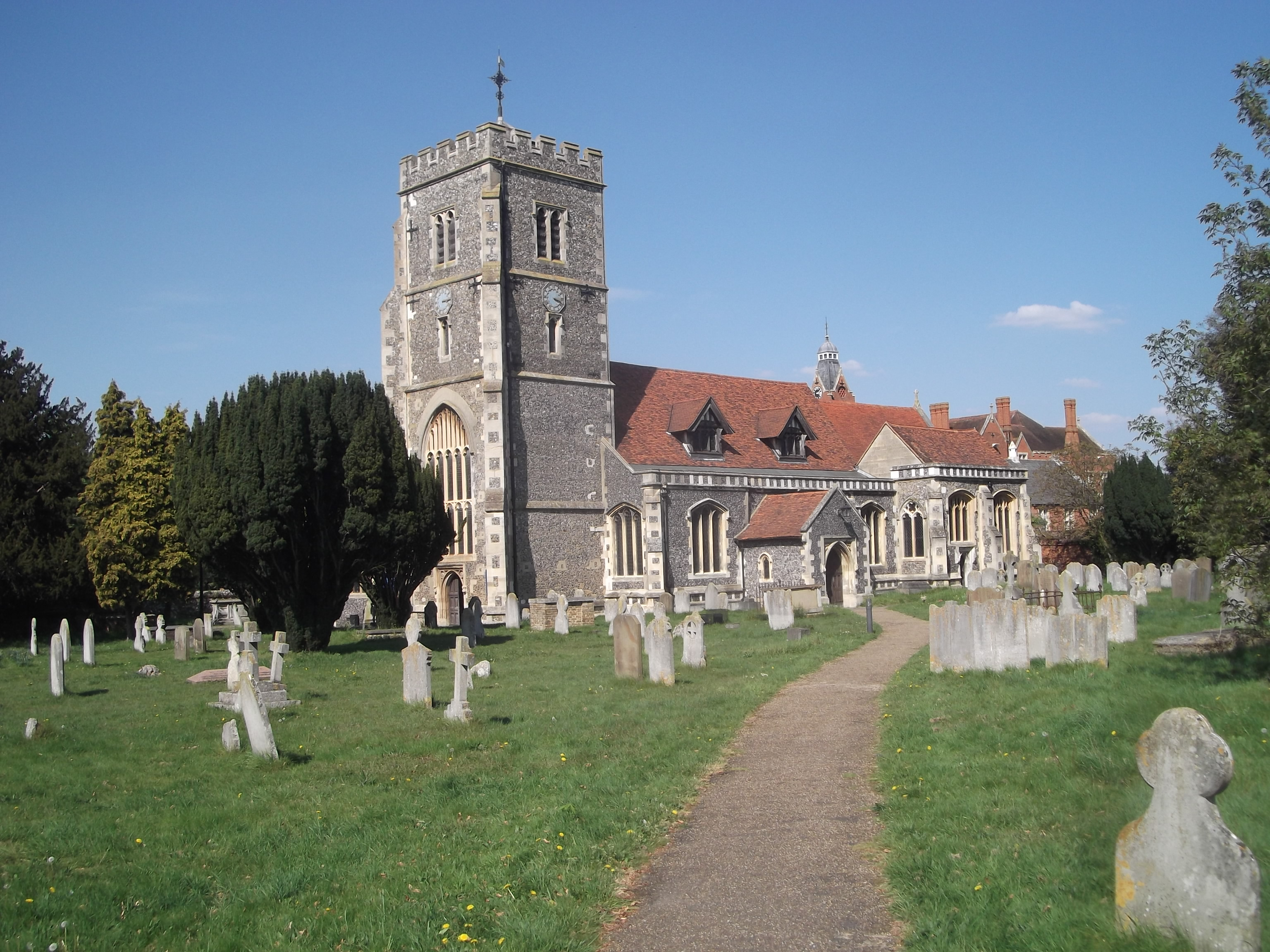 St Mary's Beddington